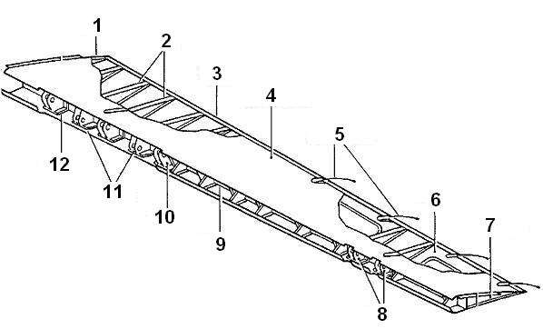 Aileron A-319 schematic: 1-Inboard end rib; 2-Ribs; 3-Trailing edge; 4-Top skin; 5-Static discharge; 6-Bottom skin; 7-Outboard end rib; 8-Hinge brackets; 9-Spar; 10-Hinge bracket; 11-Jack brackets; 12-Hinge bracket